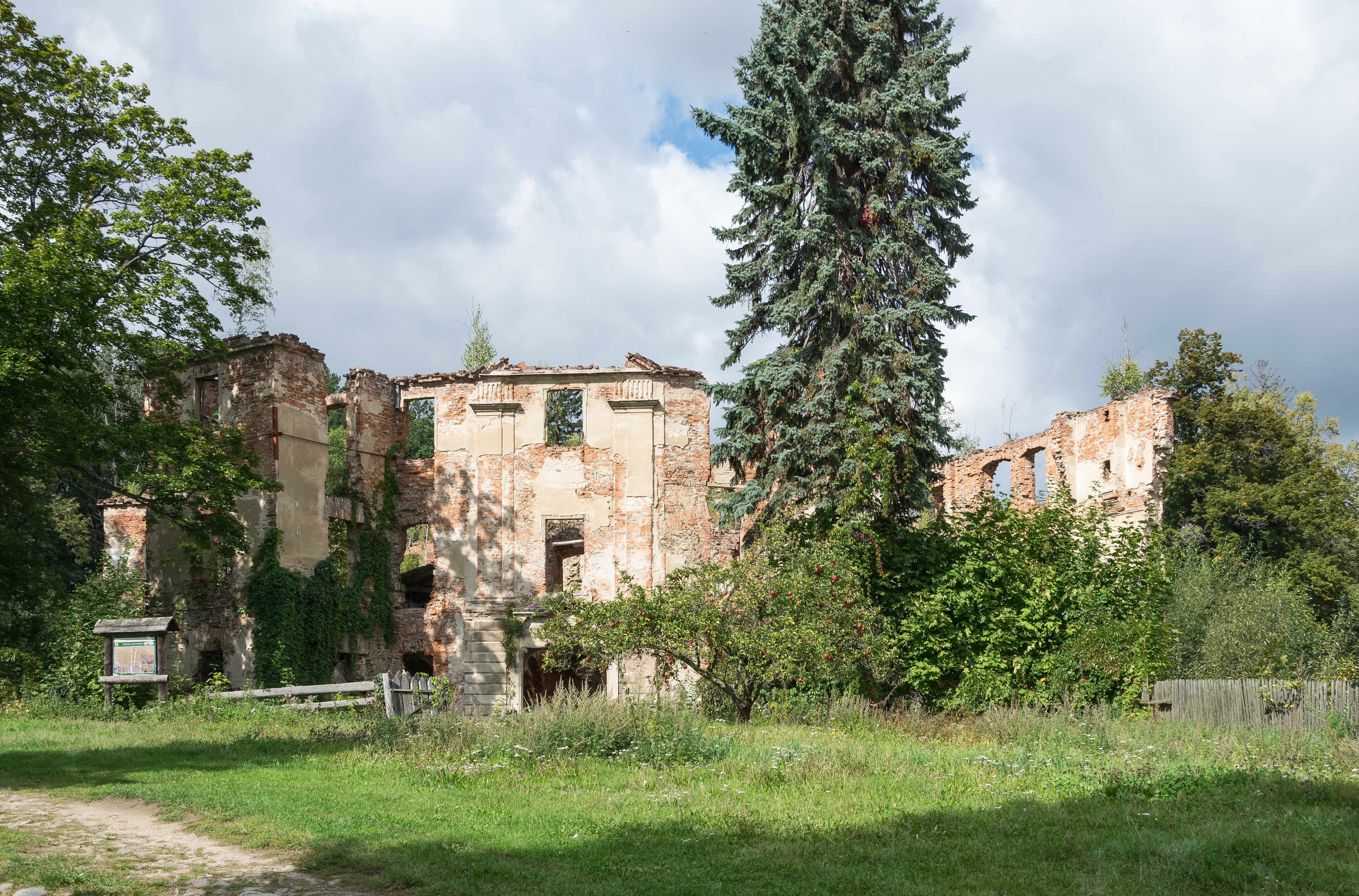 Castle in Owiesno